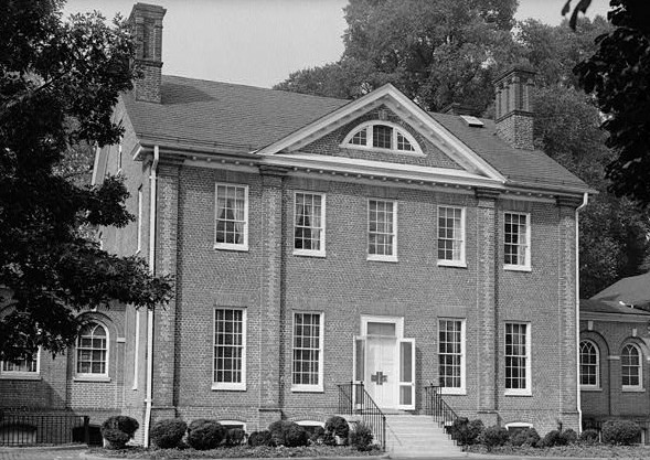 Mount Clare, Bayard & South Monroe Streets, Carroll Park (Baltimore, Independent City, Maryland) (cropped)